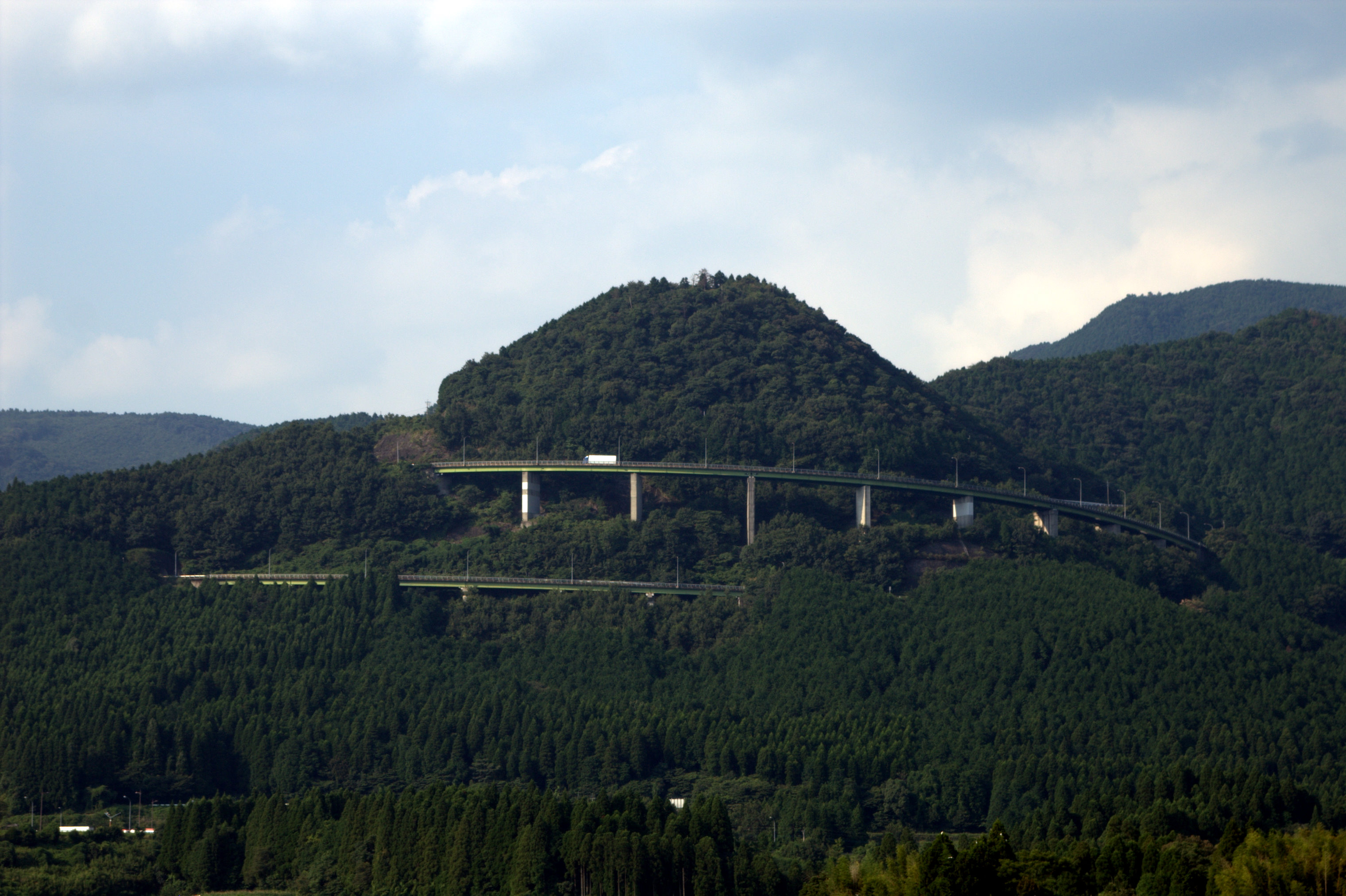 Ebino Bridge Loop